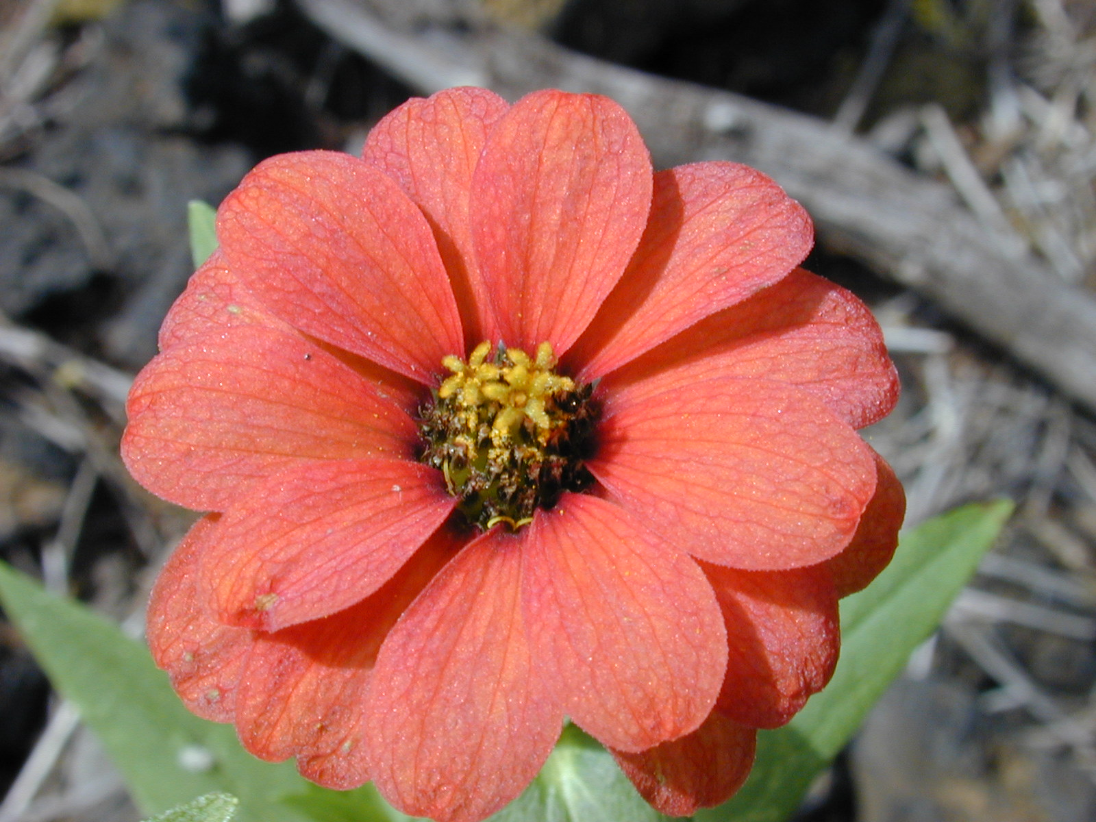 Zinnia peruviana (flower). Location: Maui, Wailea 670